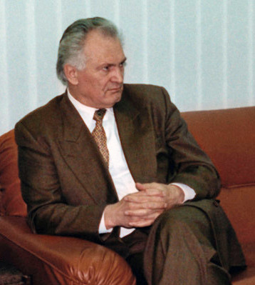 The Prime Minister of Moldova, Ion Ciubuc, at the end of the 1990s.